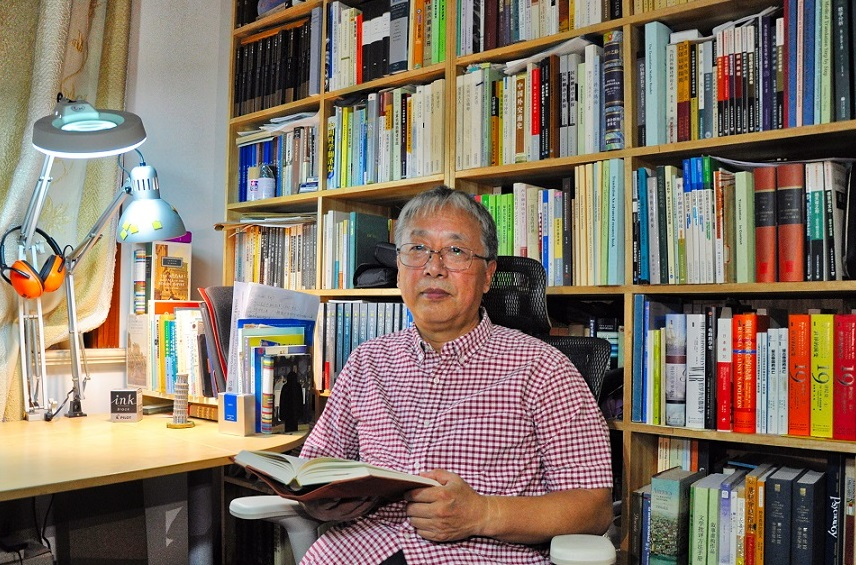 Mr. Zhao Zhiwei reading in his study.